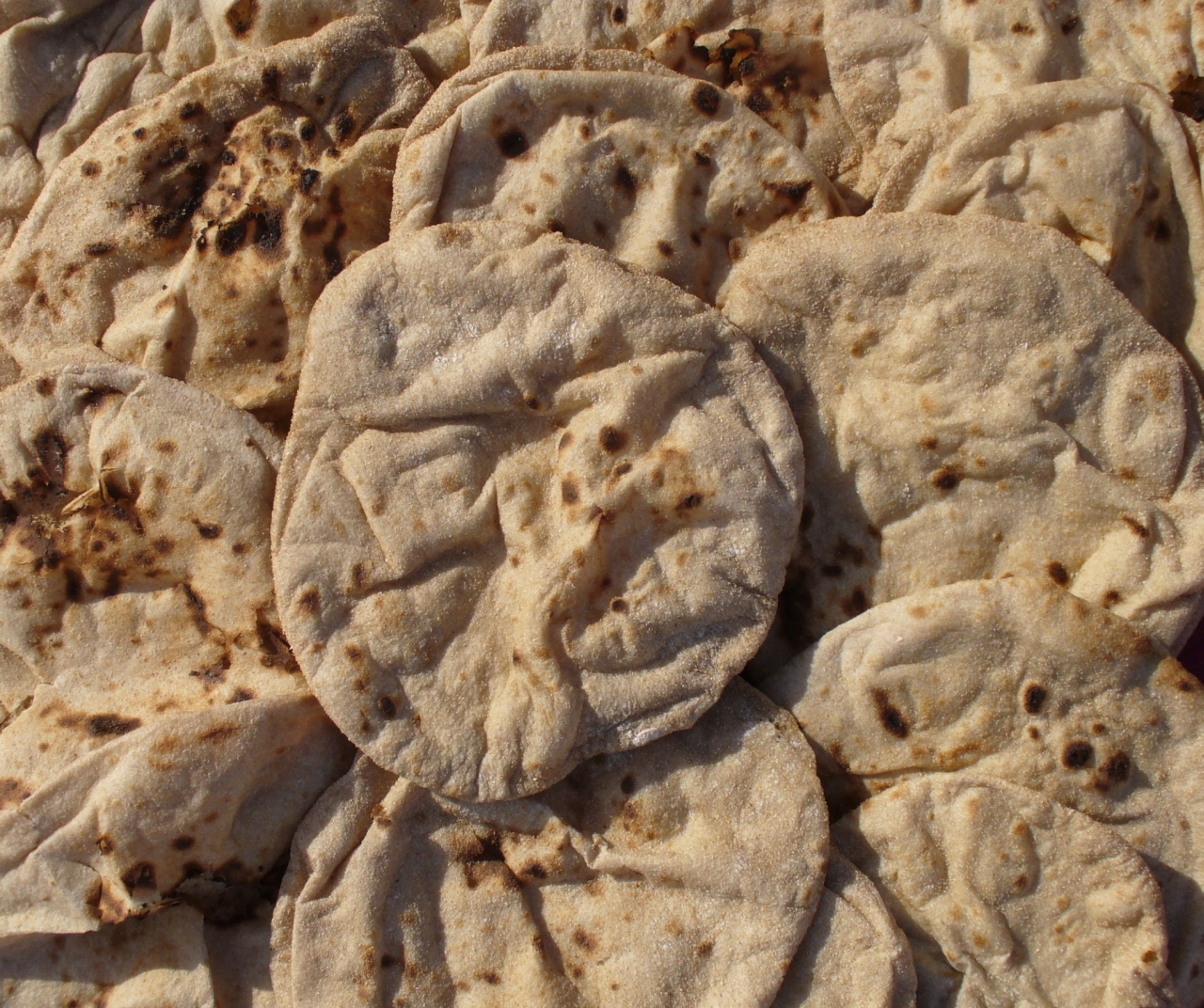 local or baladi bread, Egypt